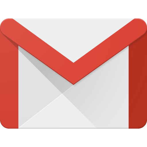 Gmail icon